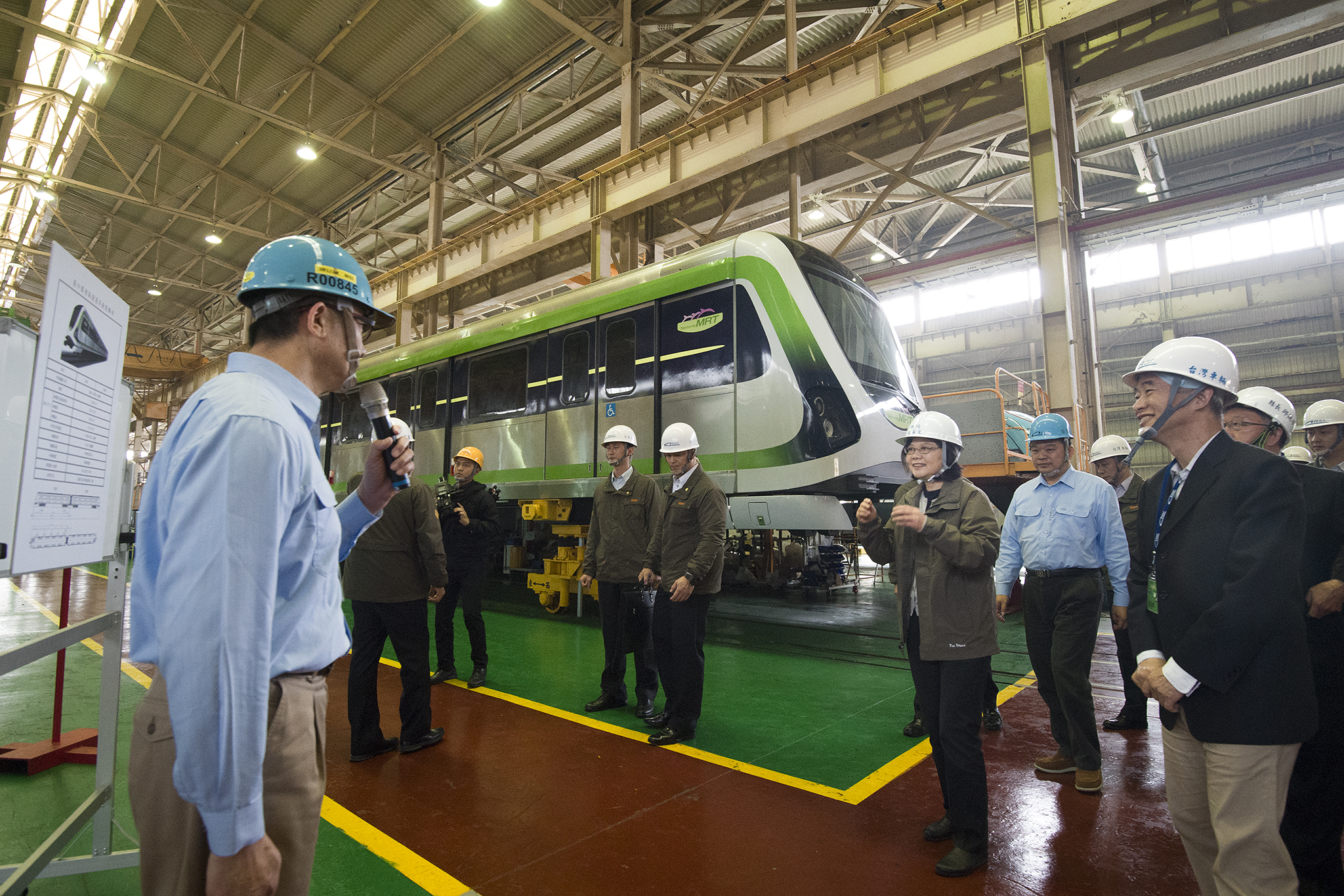 授權方式及範圍：中華民國總統府│政府網站資料開放宣告 Authorization Method & Scope: Office of the President, Republic of China (Taiwan) | Government Website Open Information Announcement